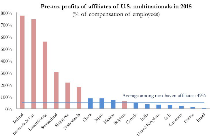 Recreation of the pre-tax profits of U.S. foreign subsidiaries, using 2015 BEA data, as also done by Gabriel Zucman for his "Missing Profits of Nations" study.